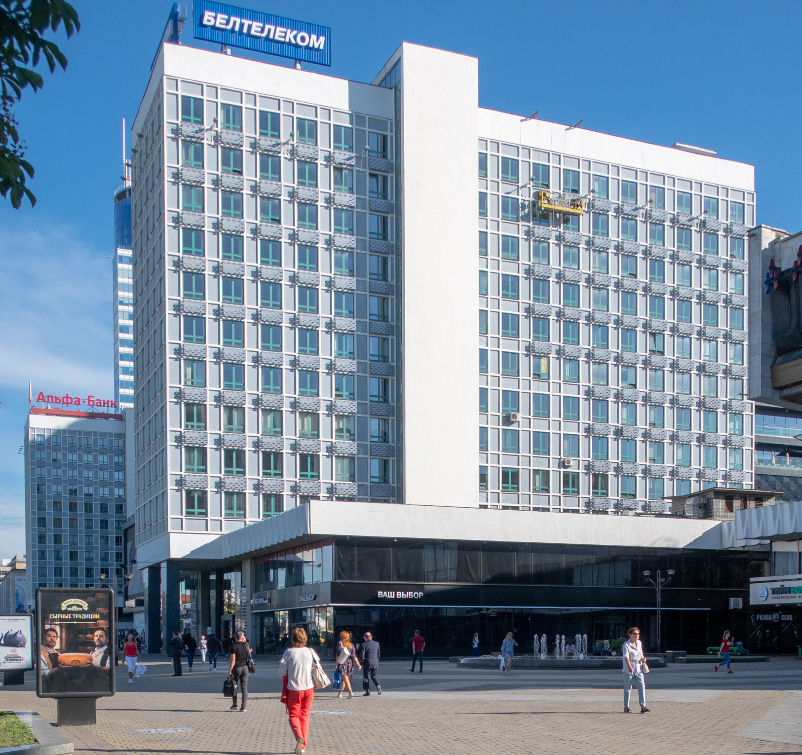 Building of Belarusian ministries of information and culture